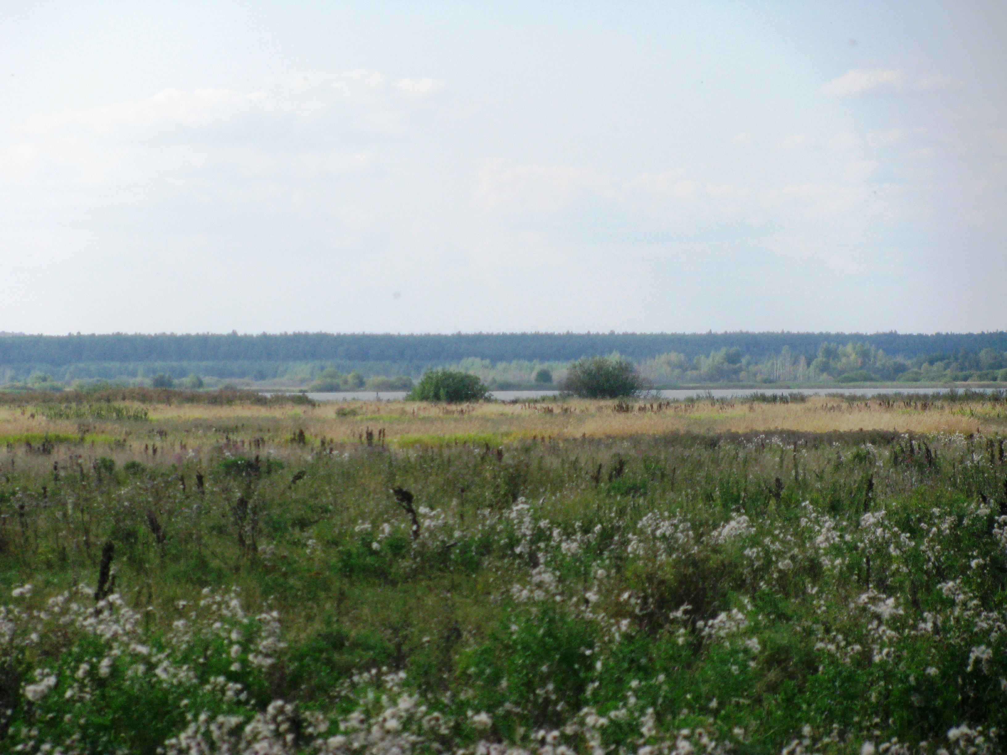 Lake Yahrobolskoe, Nekrasovsky district of the Yaroslavl region.